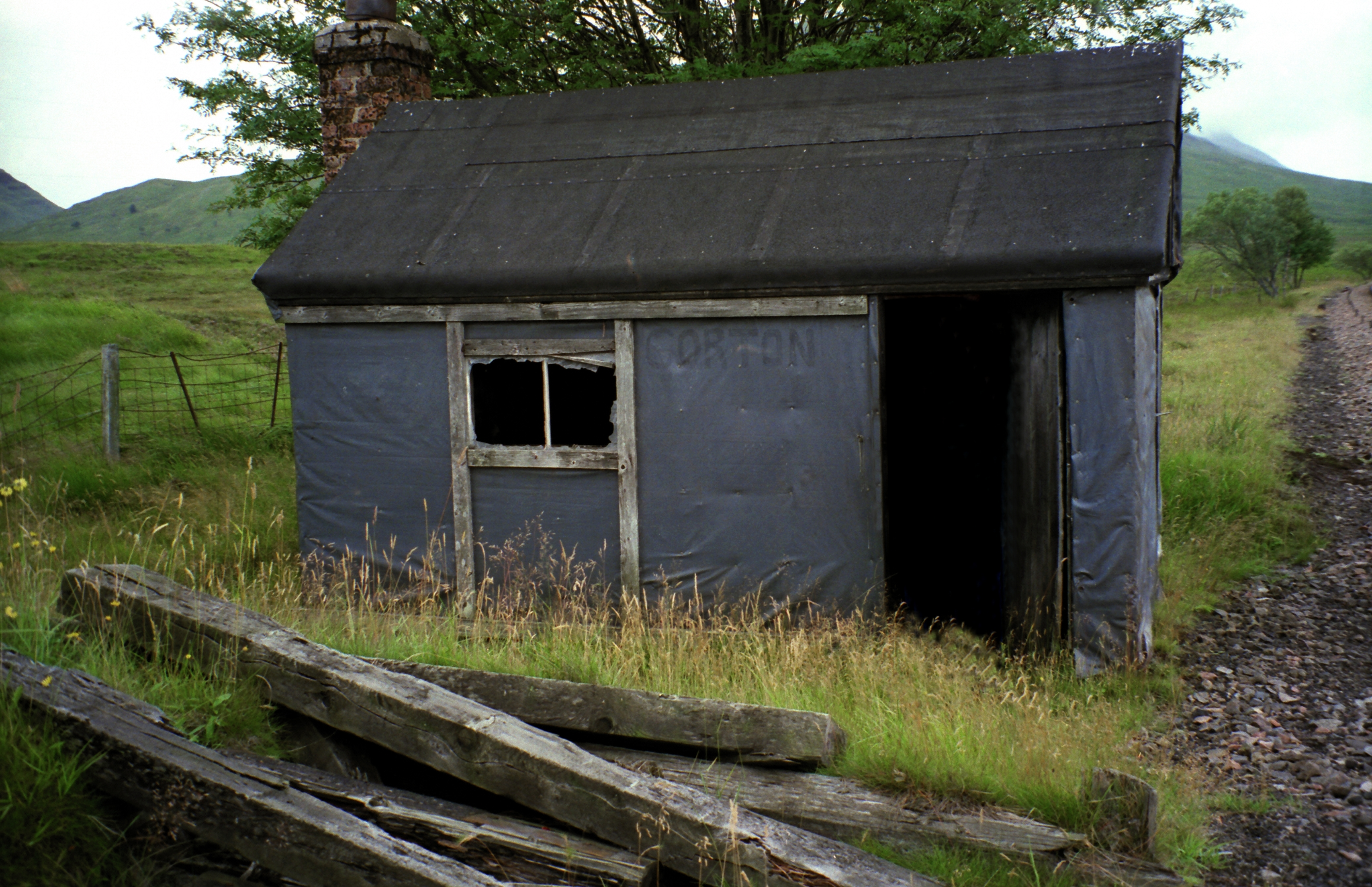 Unlocked hut containing rudimentary accommodation on east side of track at Gorton station (West Highland Line), Rannoch Moor